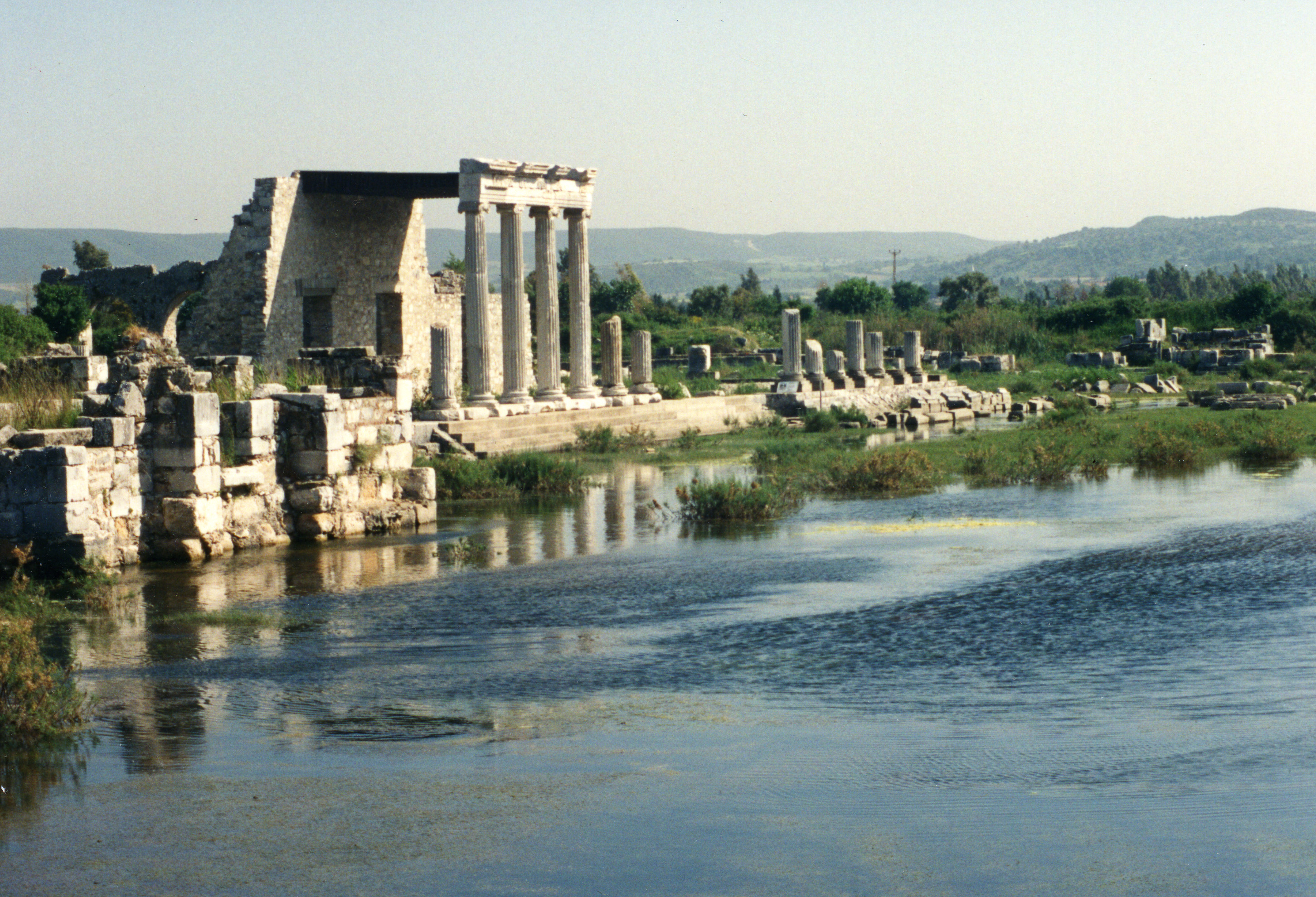 Stoa in the Agora at Miletus, fronting the (flooded) sacred way.